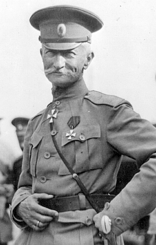 Adjutant General Aleksey Alekseyevich Brusilov (1853-1926)